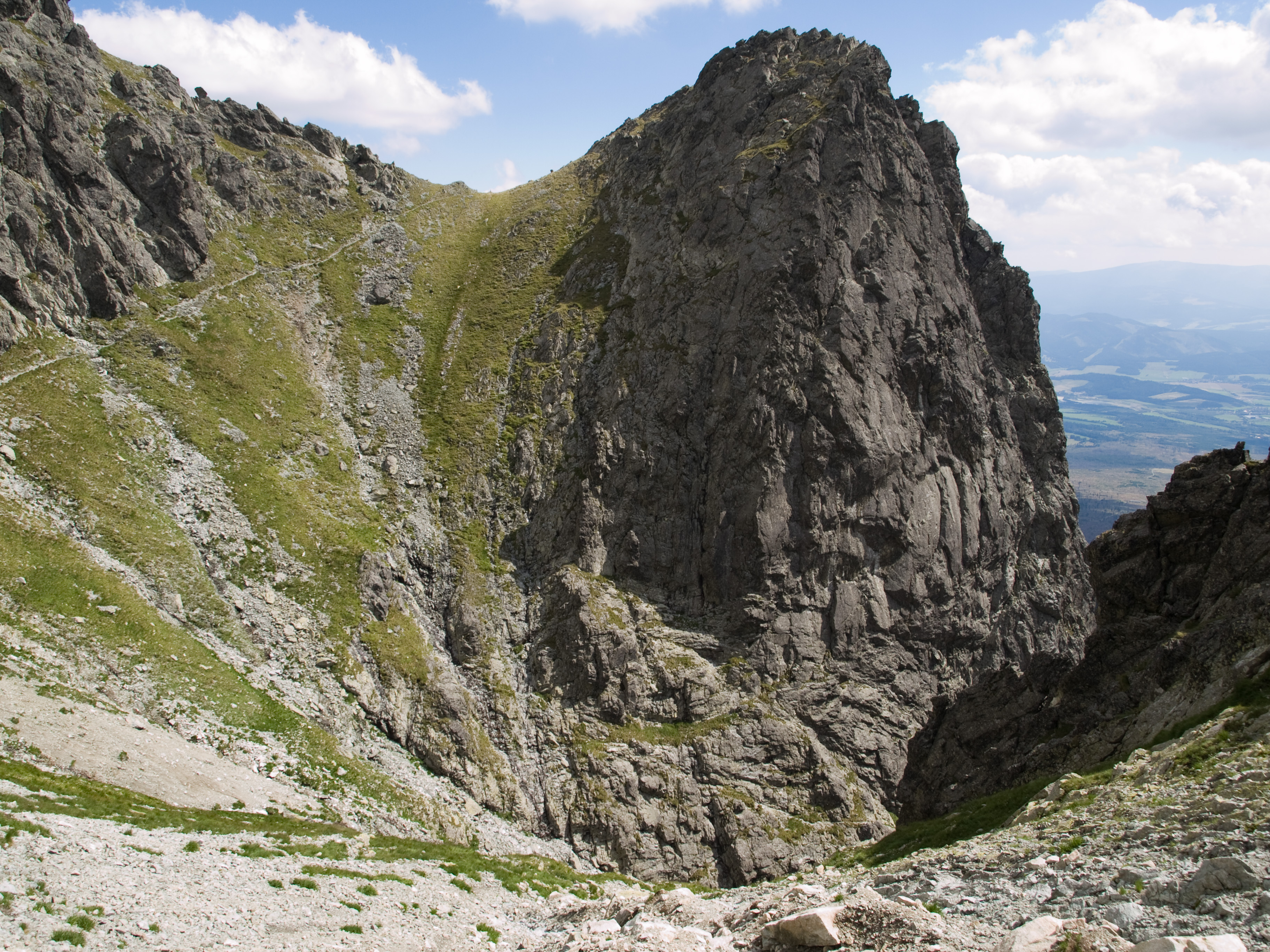 Velická stena.